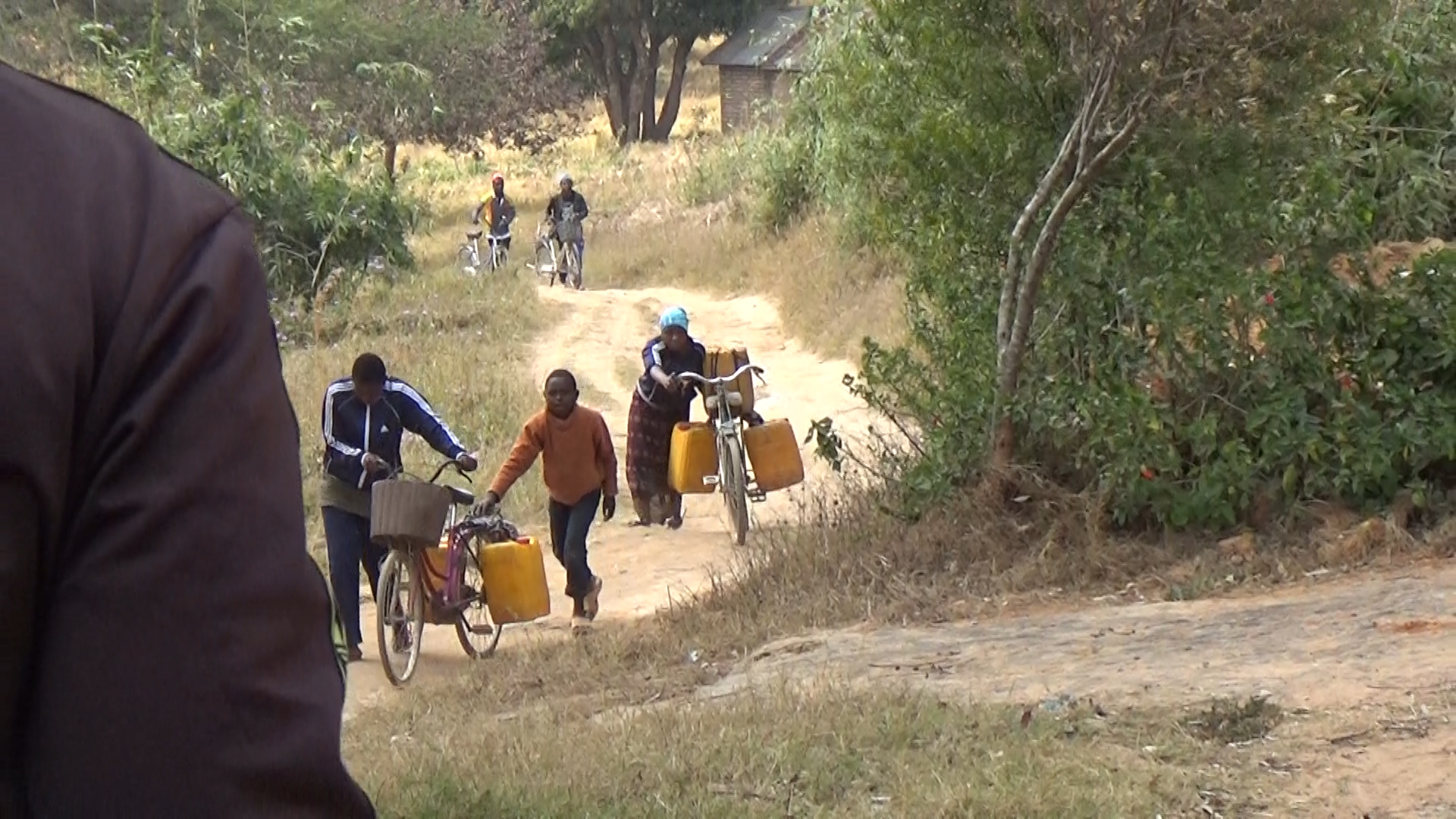 With bike going to search for water far from his home, Makambako Njombe regional This is an image of "African people at work" from Tanzania